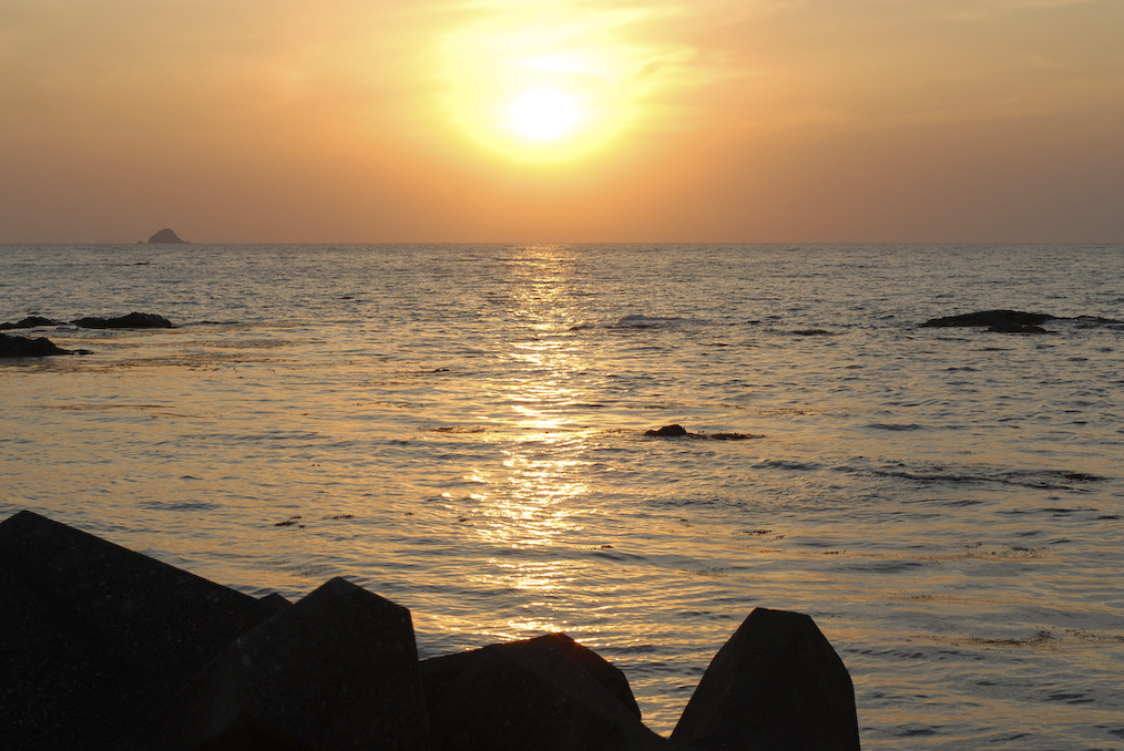 Sanrigahama Beach in Masuda, Shimane pref., Japan.